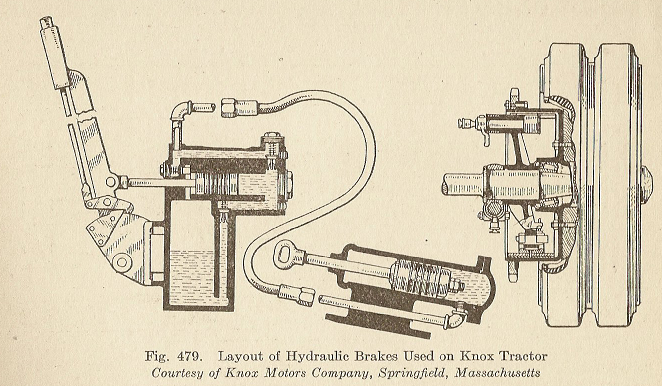 Knox Motors of Springfield, MA was the first to use hydraulic brakes in a motor vehicle, in 1918, in a Tractor unit.